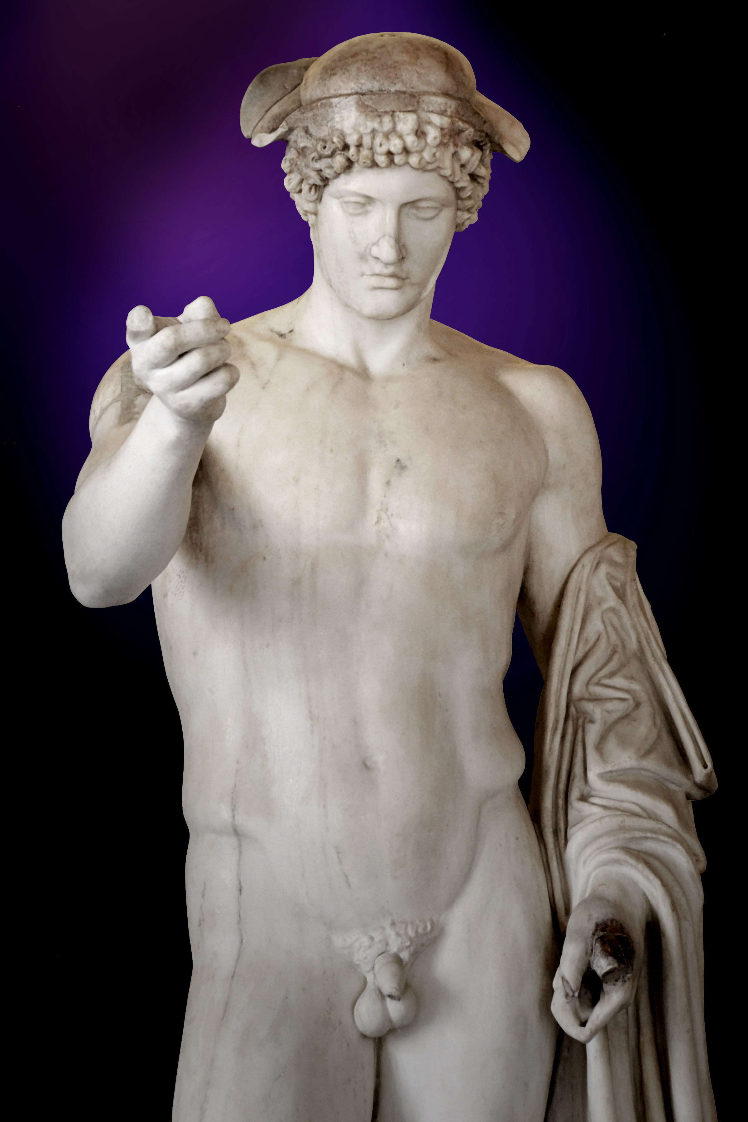 So-called “Logios Hermes” (Hermes Orator). Marble, Roman copy from the late 1st century CE-early 2nd century CE after a Greek original of the 5th century BC.